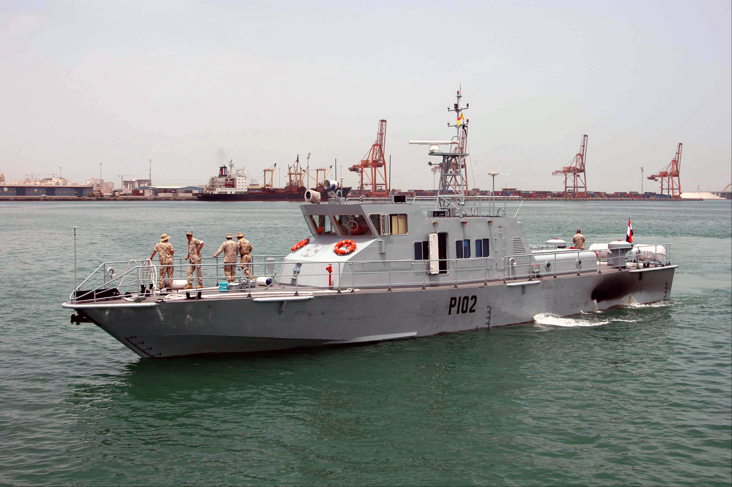 Manama Pier, Bahrain (Apr. 25, 2004) - Iraqi Coastal Defense Force (ICDF) Patrol Craft 102 prepares to moor in Manama, Bahrain after its 36-hour journey from Dubai, UAE. P102 is the first of five patrol vessels for the new Iraqi ICDF. Coalition forces comprised of U.S. Navy and Marines, Royal Australian Navy and Royal Navy will deliver it to its final destination of Umm Qasr. U.S. Navy photo by Photographer's Mate 1st Class Dean M. Dunwody. (RELEASED)